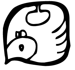 Maya:glyph:logogram:calendric:Tzolkin:Day07:Manik:codex+W:v01. Img created by CJLL Wright.